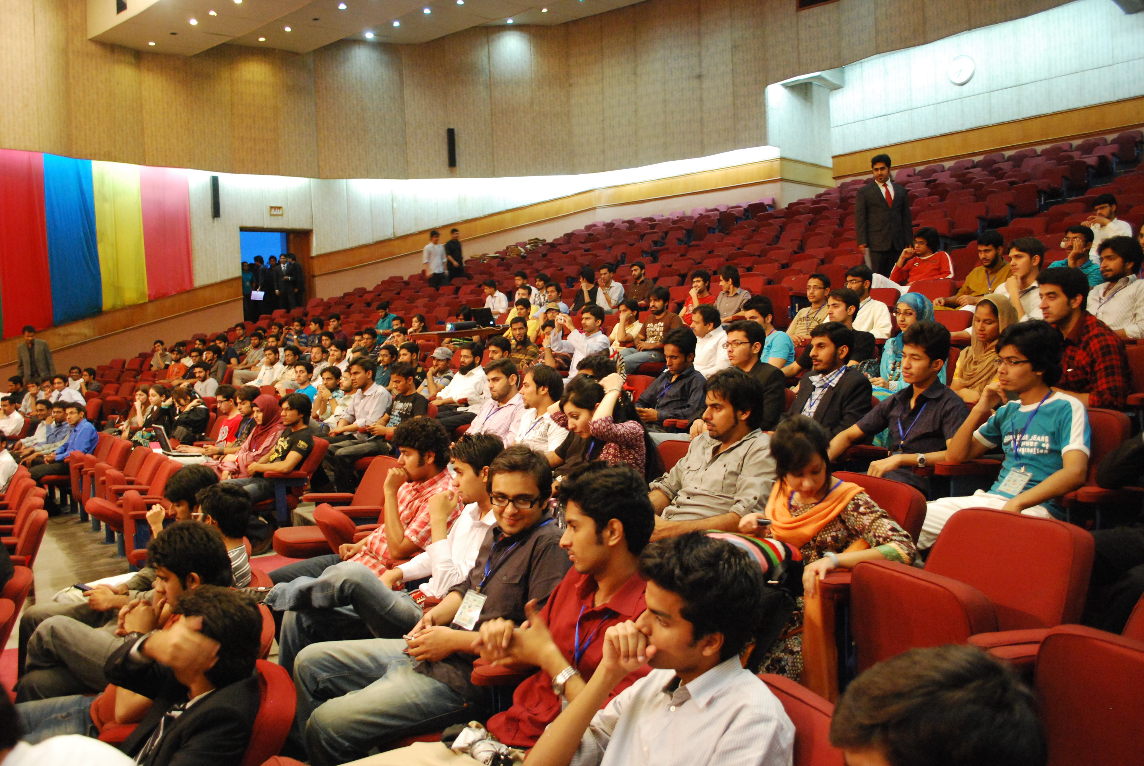 AHA Auditorium on some random event.